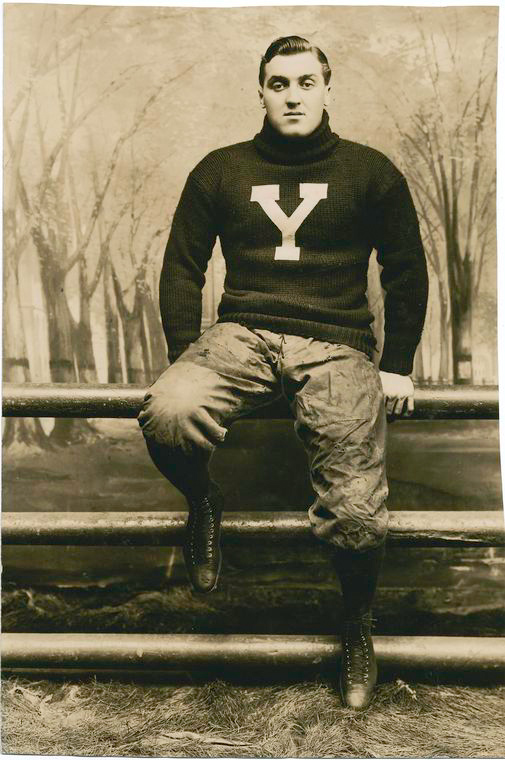 Tom Shevlin, From a photograph, courtesy of the Yale Athletic Association